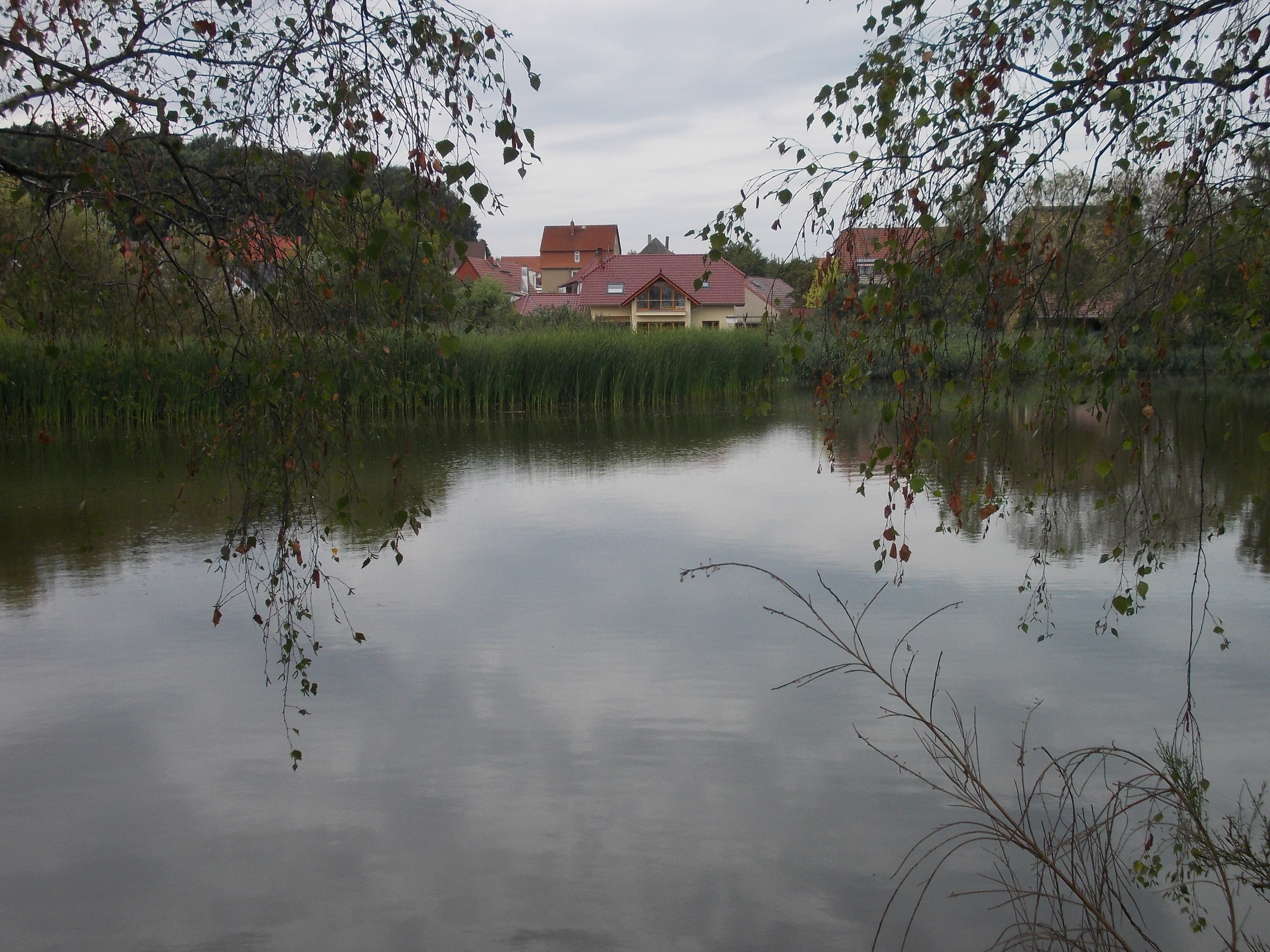 The village of Haselbach behind the Rittergutsteich pond (district of Altenburger Land, Thuringia)